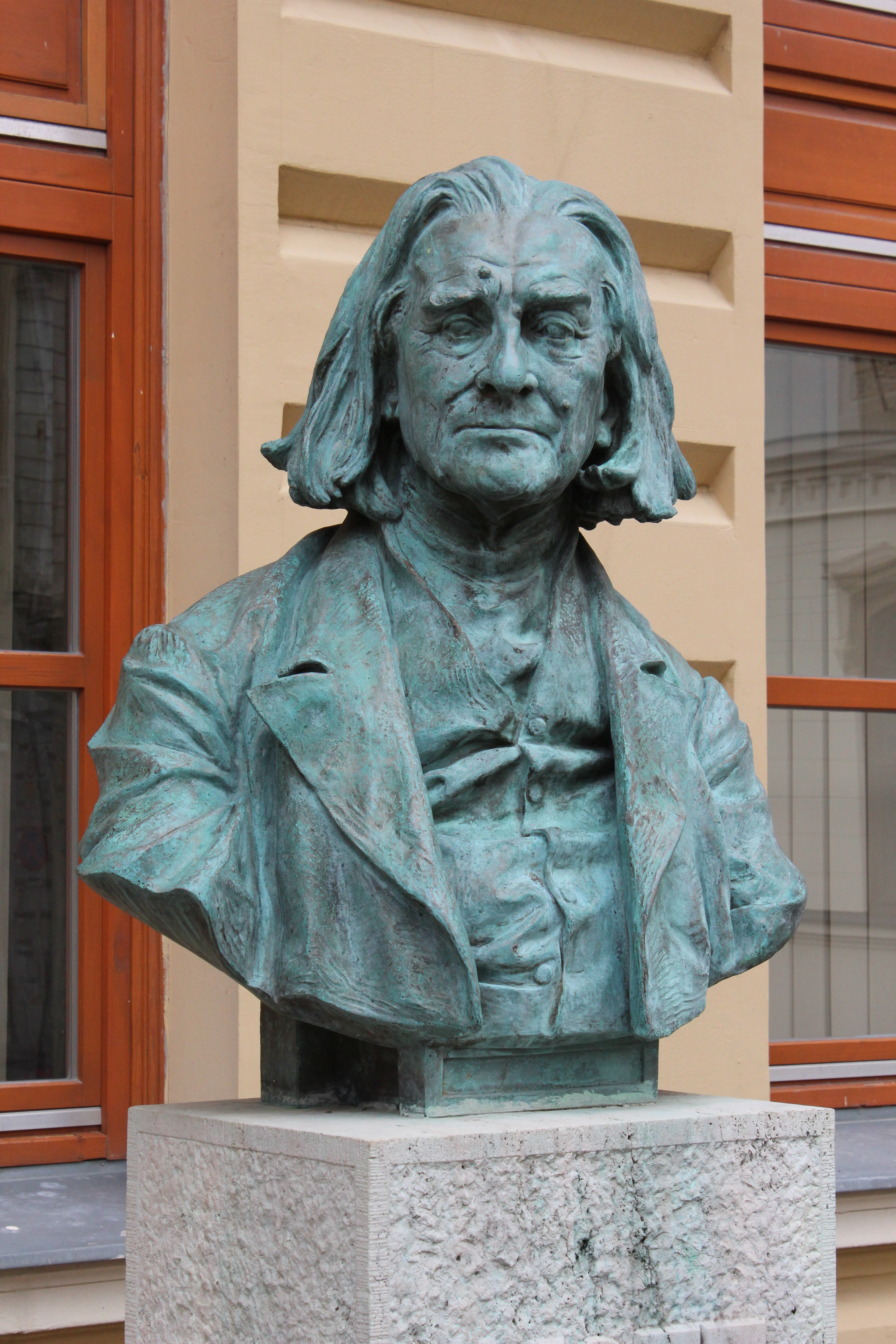 Bust of Ferenc Liszt. (Hungary, Sopron, Széchenyi tér 15.) Work of austrian sculptor Viktor Tilgner (1844–1896), made in 1884, inauguration 1893.